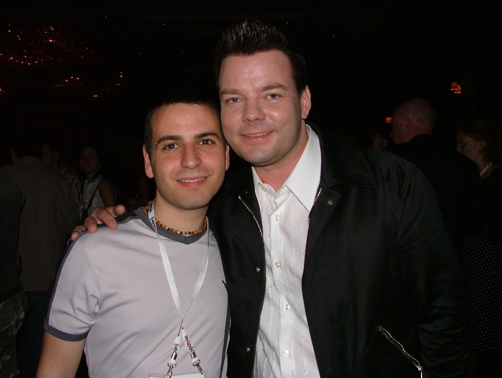 Eurovision Song Contes 2004 - Istanbul